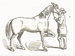 Image from The Complete Horse Tamer by John Rarey